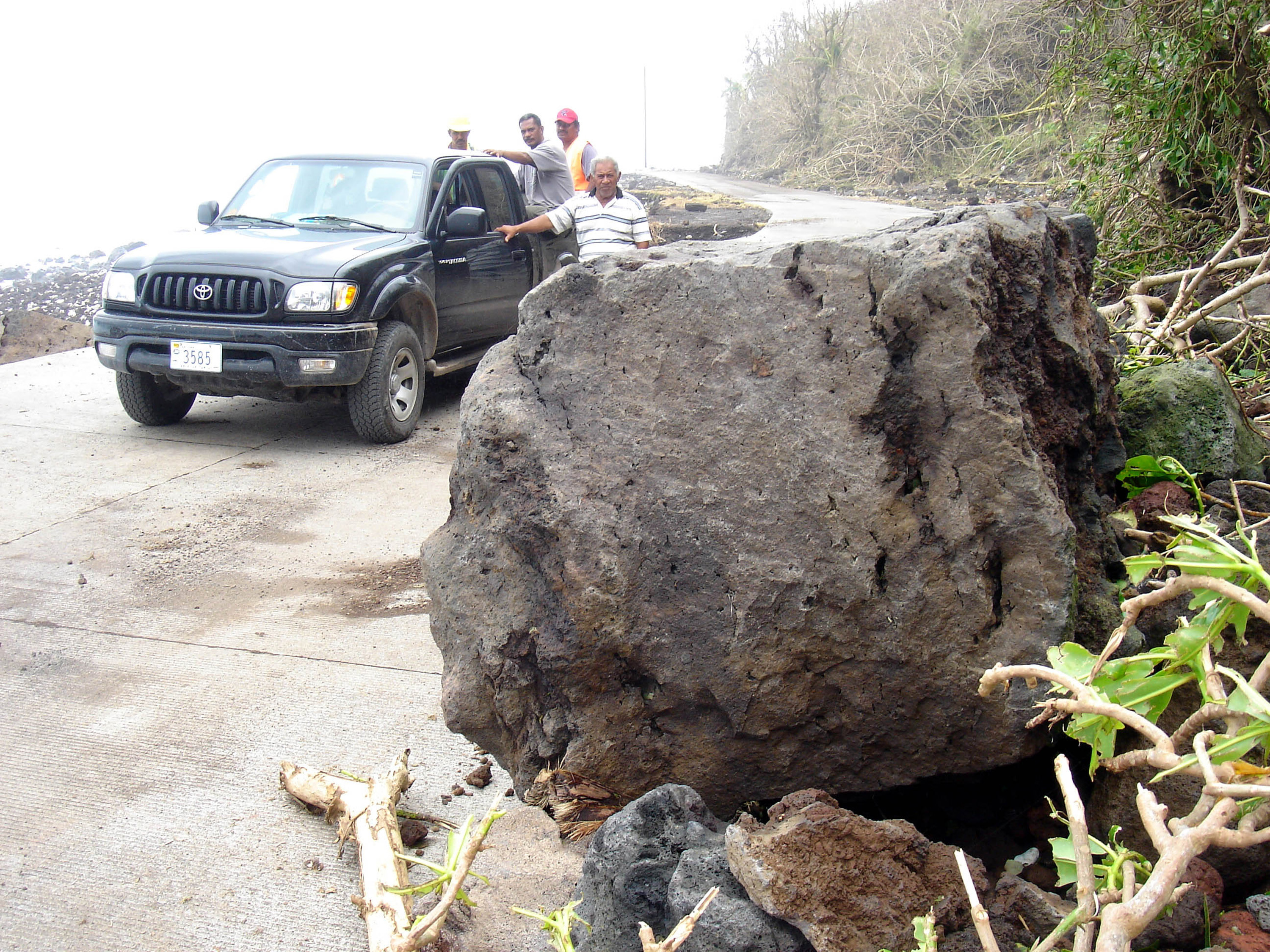 Fitiuta Village, Tau Island, Manua -- February 19, 2005 -- Rocks as large a cars fell down in massive landslides during the onslaught of super Cyclone Olaf.